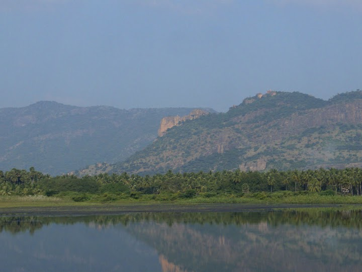 One of the two important water reservoirs located in the village of Kansapuram